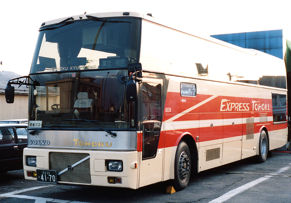 FHI Asterope coach (#808) with Volvo B10M chassis in Japan. Tōhoku Kyūkō Bus operator.